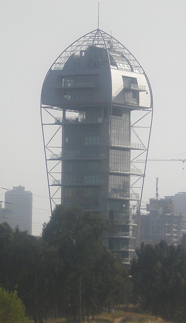 Pivko Tower (a.k.a. The Garden Tower), Ramat Gan,Israel